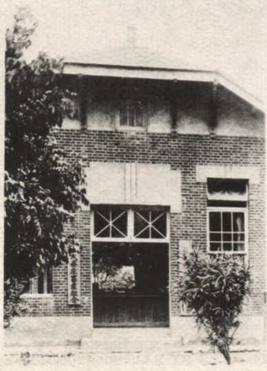 大寮庄役場